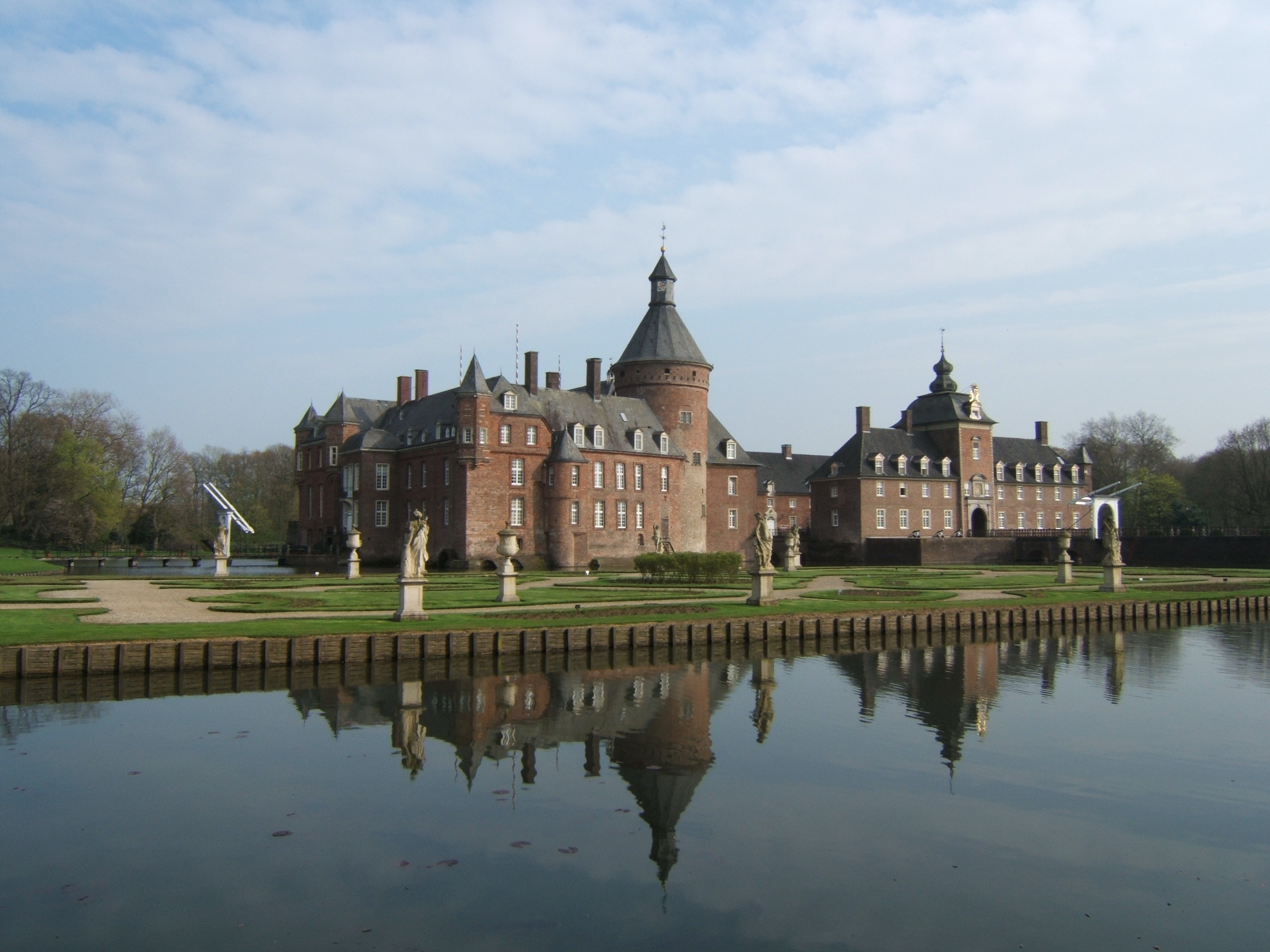 Anholt Castle